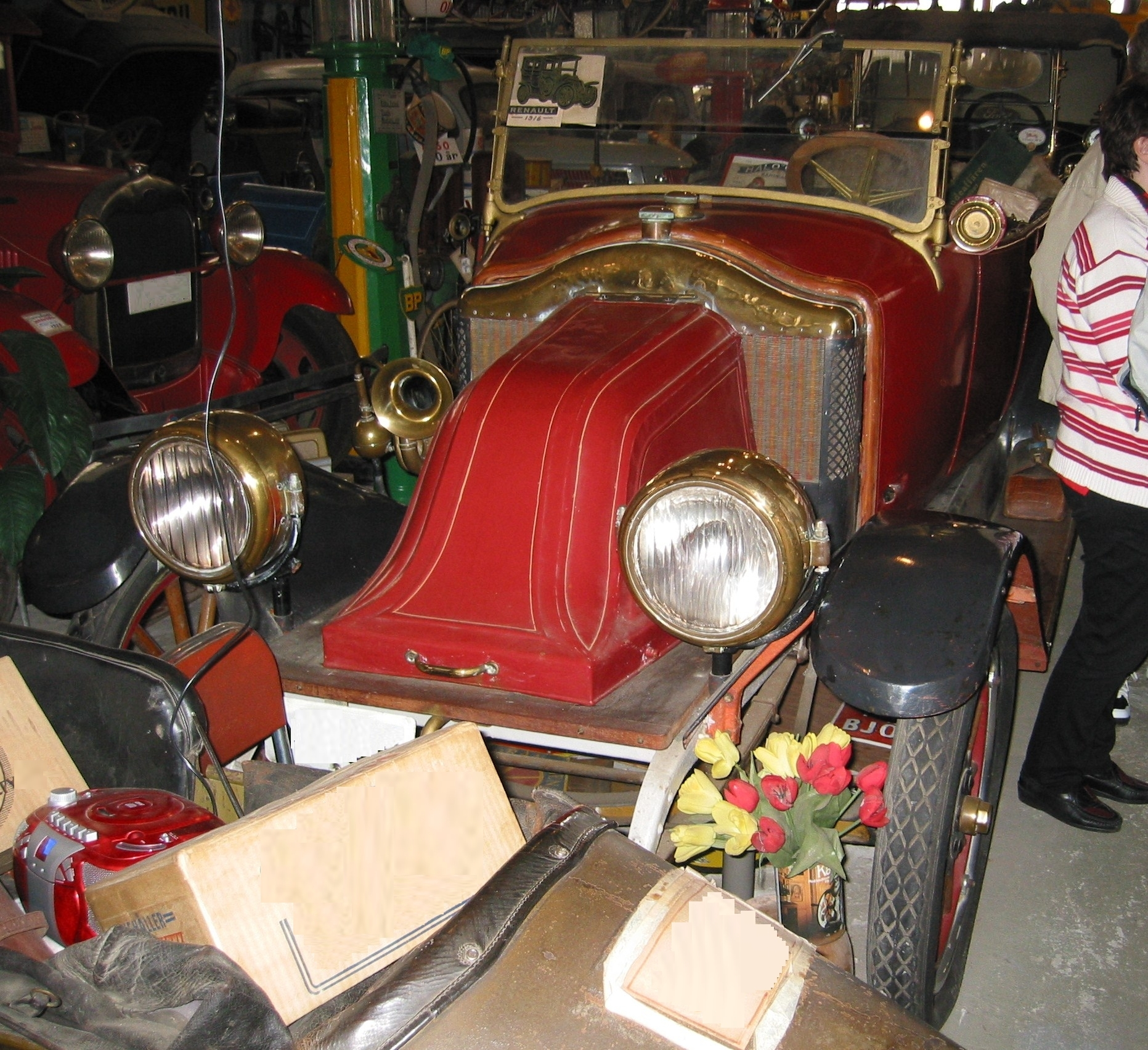 Renault Type IG Torpedo 1920-1921